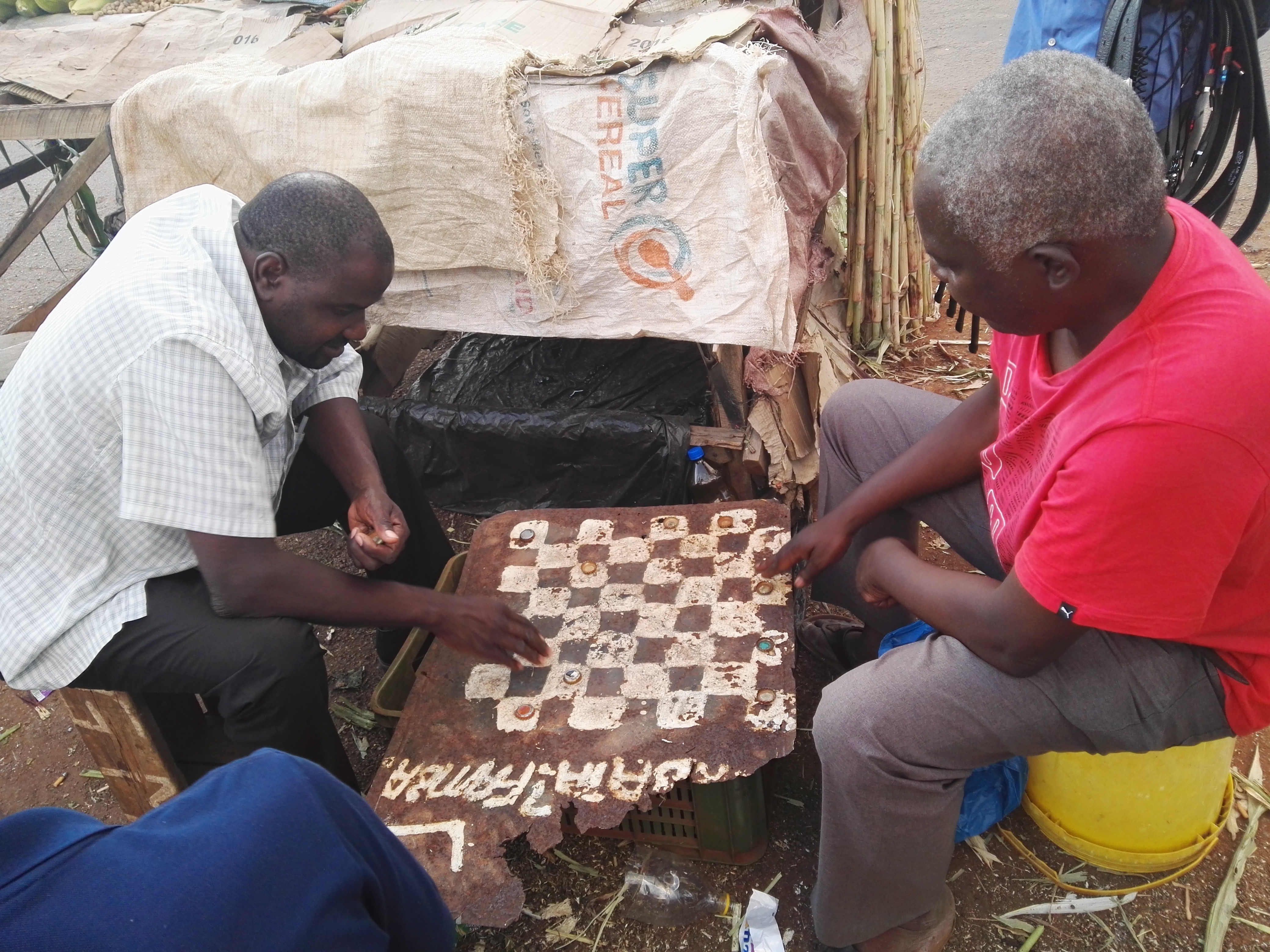 African men relaxing during the weekend playing draft This is an image with the theme "Play" from: Zimbabwe